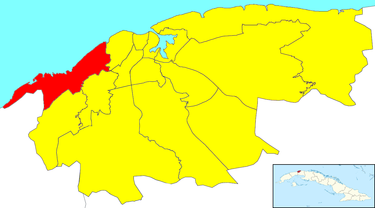 A map of the municipality of Playa (shown in red) within the city of Havana (yellow). The little Cuban map in the corner shows Havana (dark red) within the island.